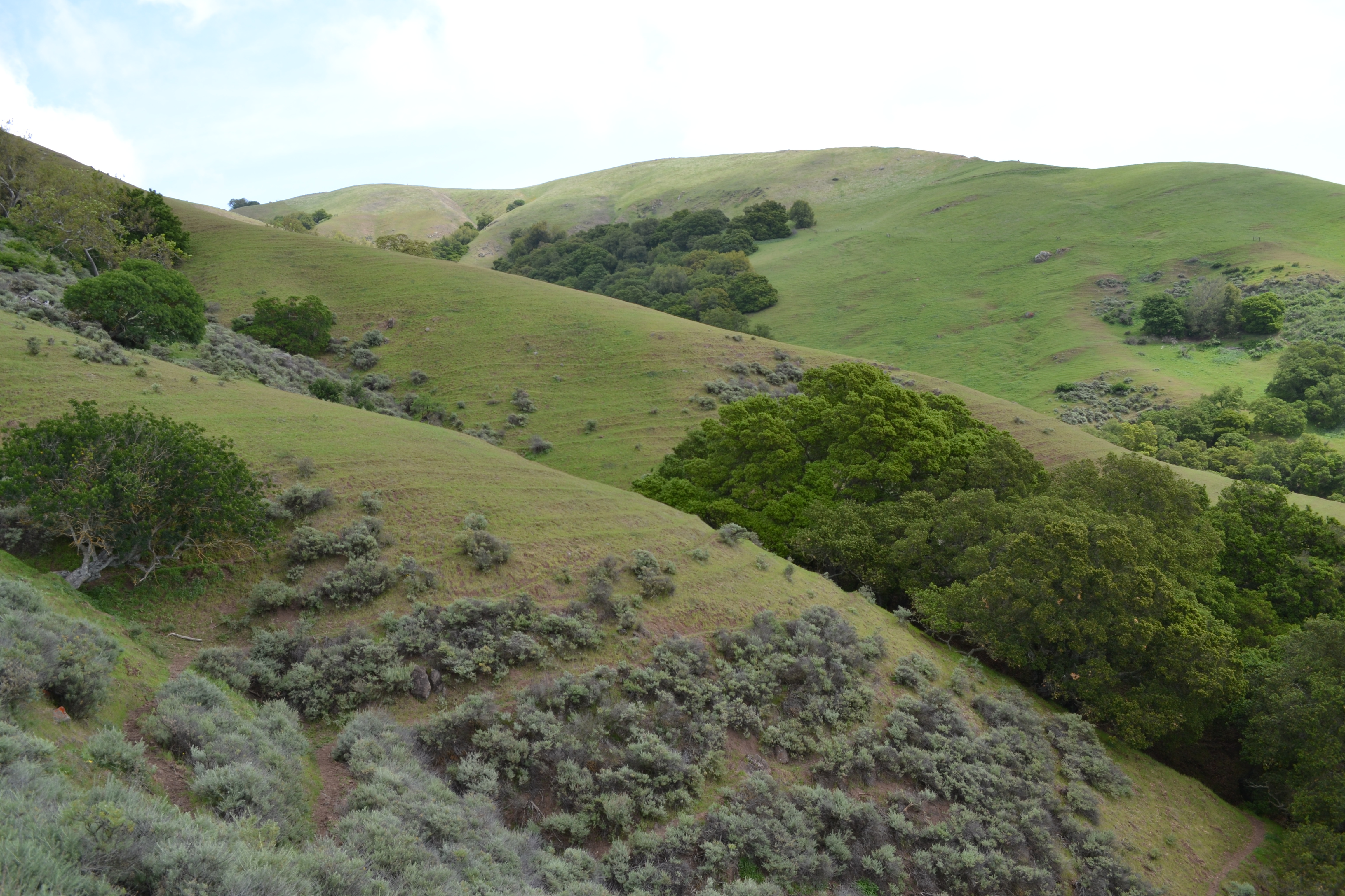 Diablo Range near Milpitas, California